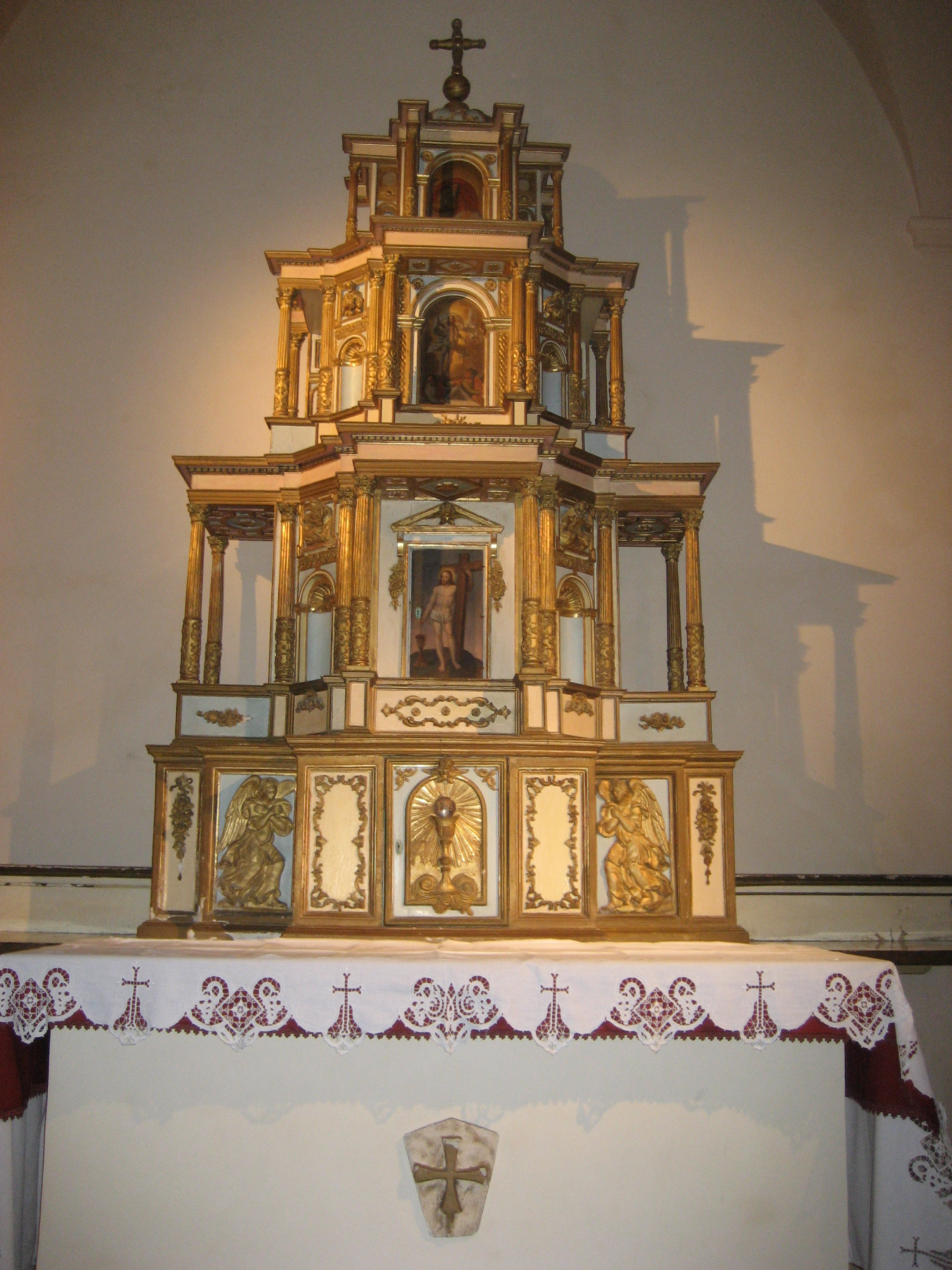 Tabernacle of the Chapel of the Sacrament, in the left aisle. The tabernacle is of the XVIII century, while the small cloths that adorn it are of the end of the XVI century, coming from a more ancient tabernacle.